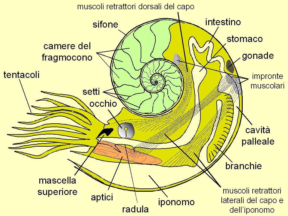 idealized scheme of ammonite anatomy. data from from Doguzhaeva and Mutvei (1991); Engeser (1996). Text in italian